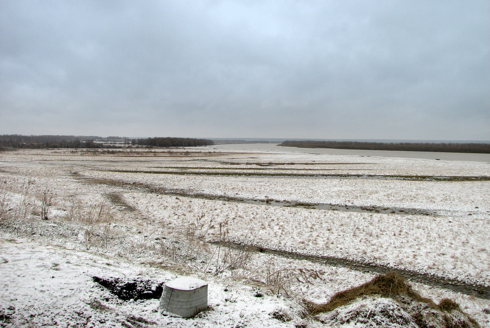 Snow in Butakovo.